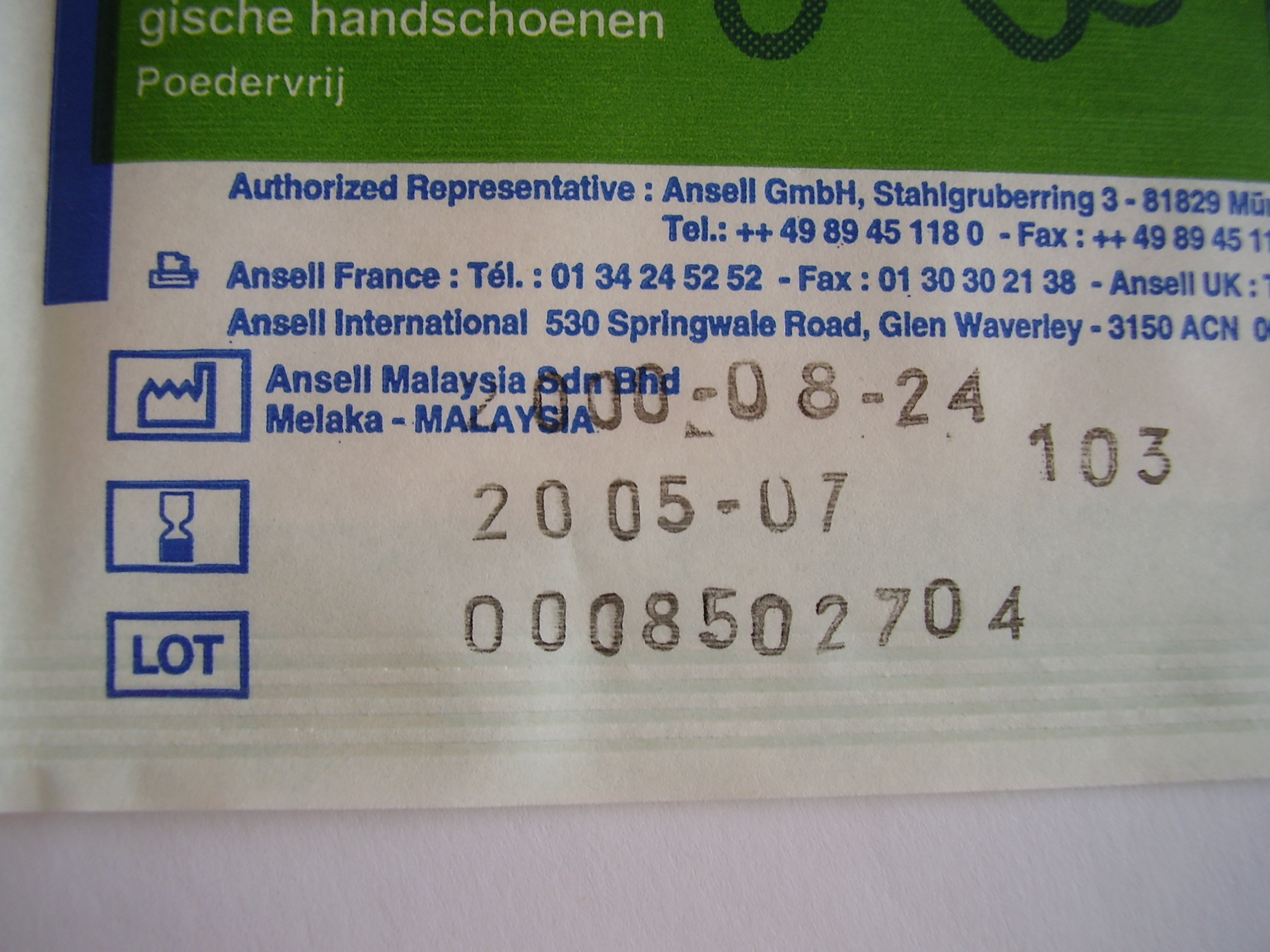 Disposable gloves; surgical gloves; chirurgische Handschuhe; steril; Latexhandschuhe